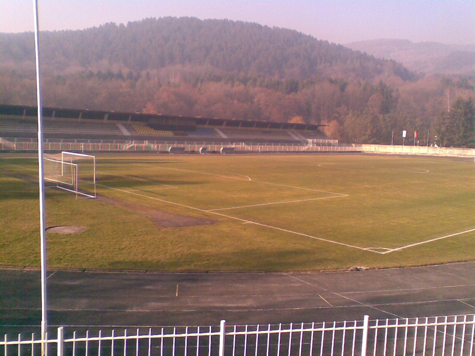 Home ground of FK Rudar Pljevlja